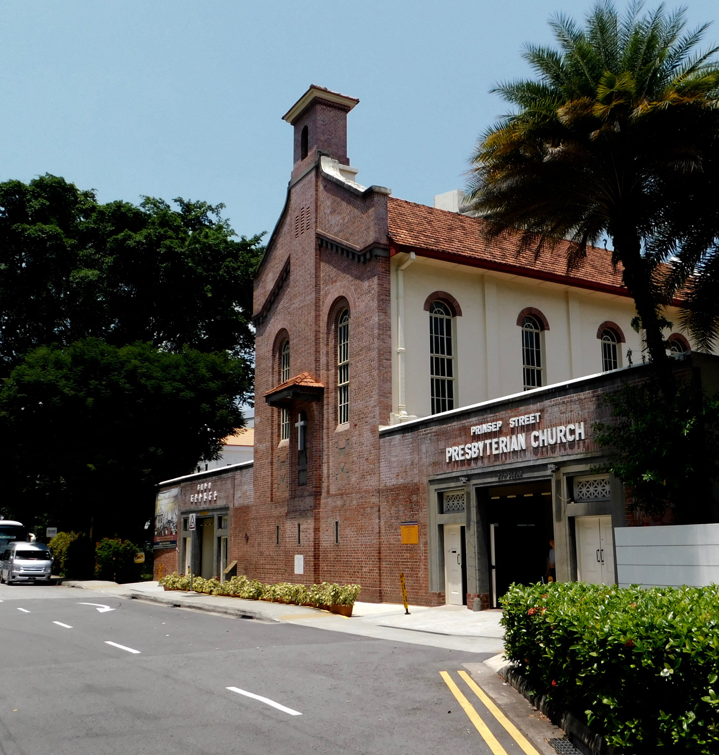 The architectural features of the church are its distinctive red brick façade and the raised brickwork on the tower and belfry.